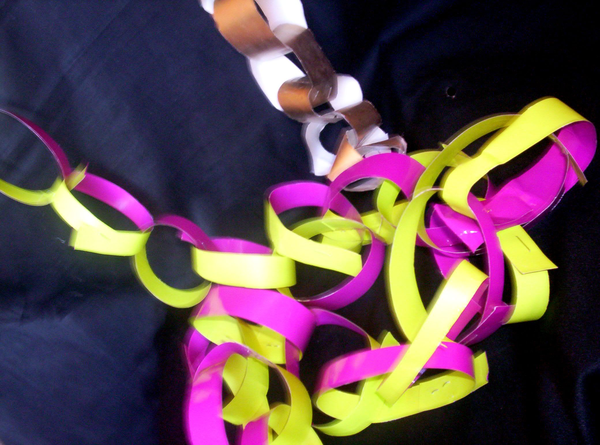 child activity Guirlandes en papier